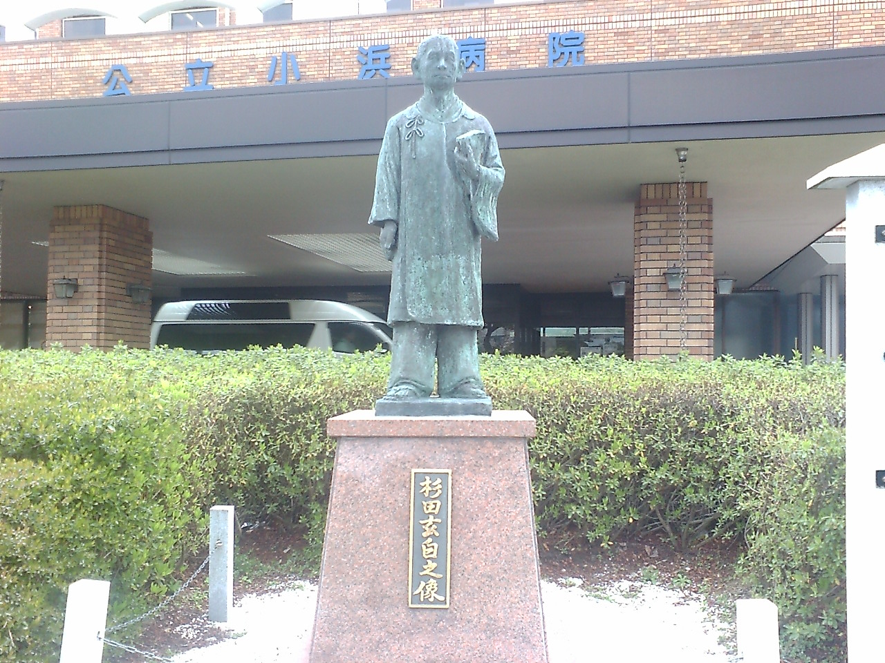 This is a statue of Genpaku Sugita in Obama City, Fukui Prefecture, Japan.